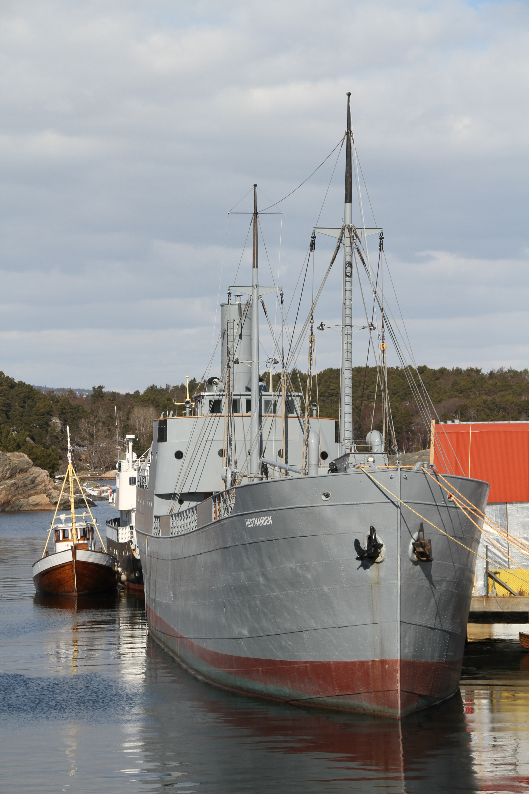 Image of the National Maritime Heritage Center (Nasjonalt fartøyvernsenter) at the island Bredalsho,men - Kristiansand, Vest-Agder county, Norway. At he time, the main ships for repair were "D/S Hestmanden" (WWII), the tug "Storegut II", and the vessel "Gamle Oksøy".